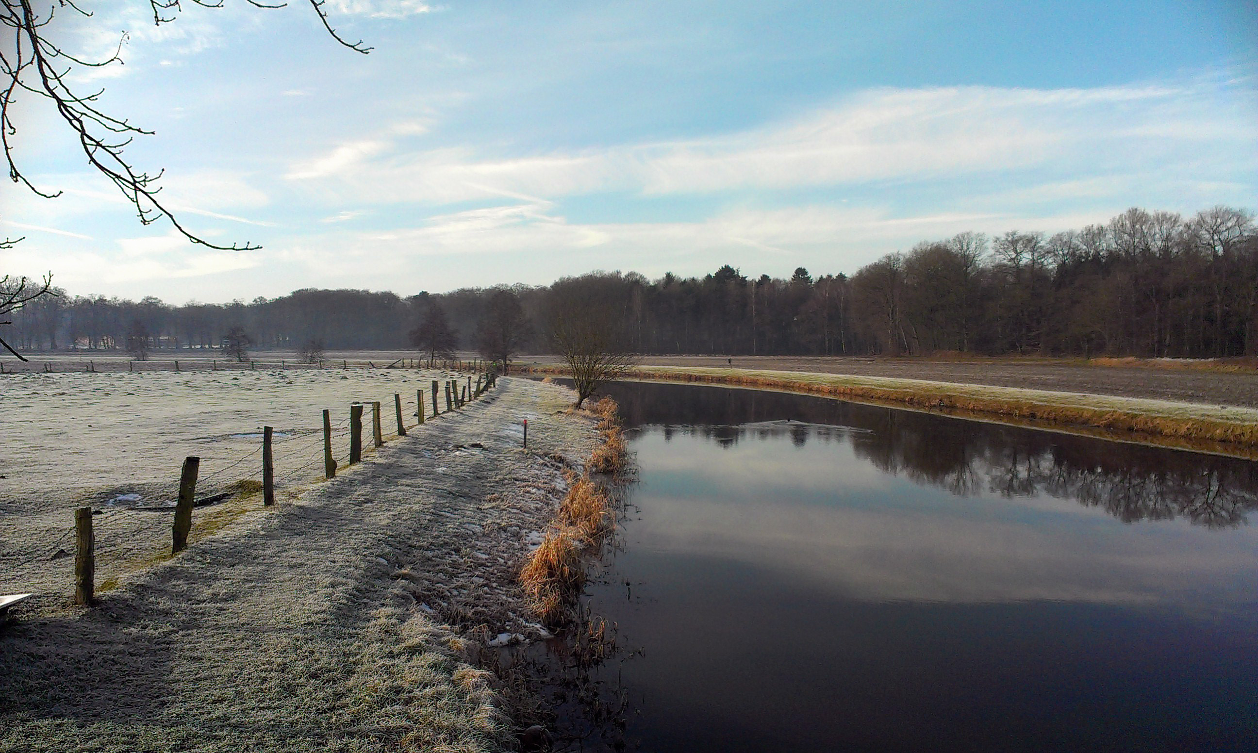 The Hunte near Colnrade